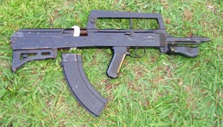 China type 86S.U.S. Marshal Multi-Agency Team Knock and Announce during operation FALCON